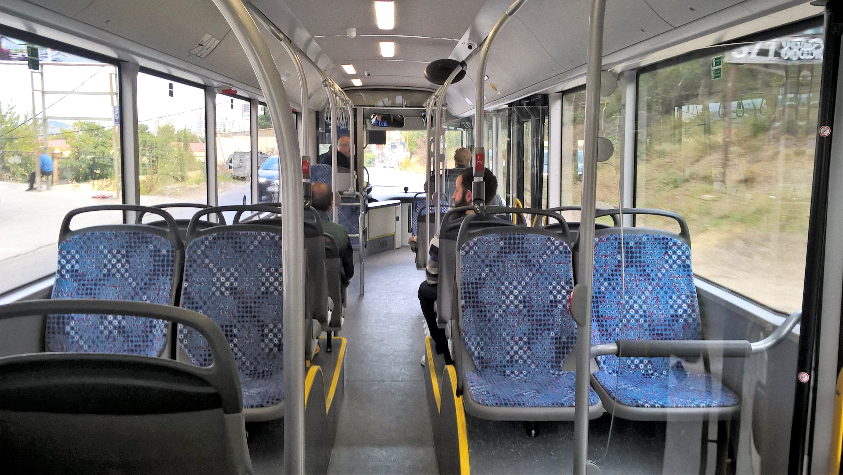 Tbilisi's new city bus - MAN Lion's city A21 CNG